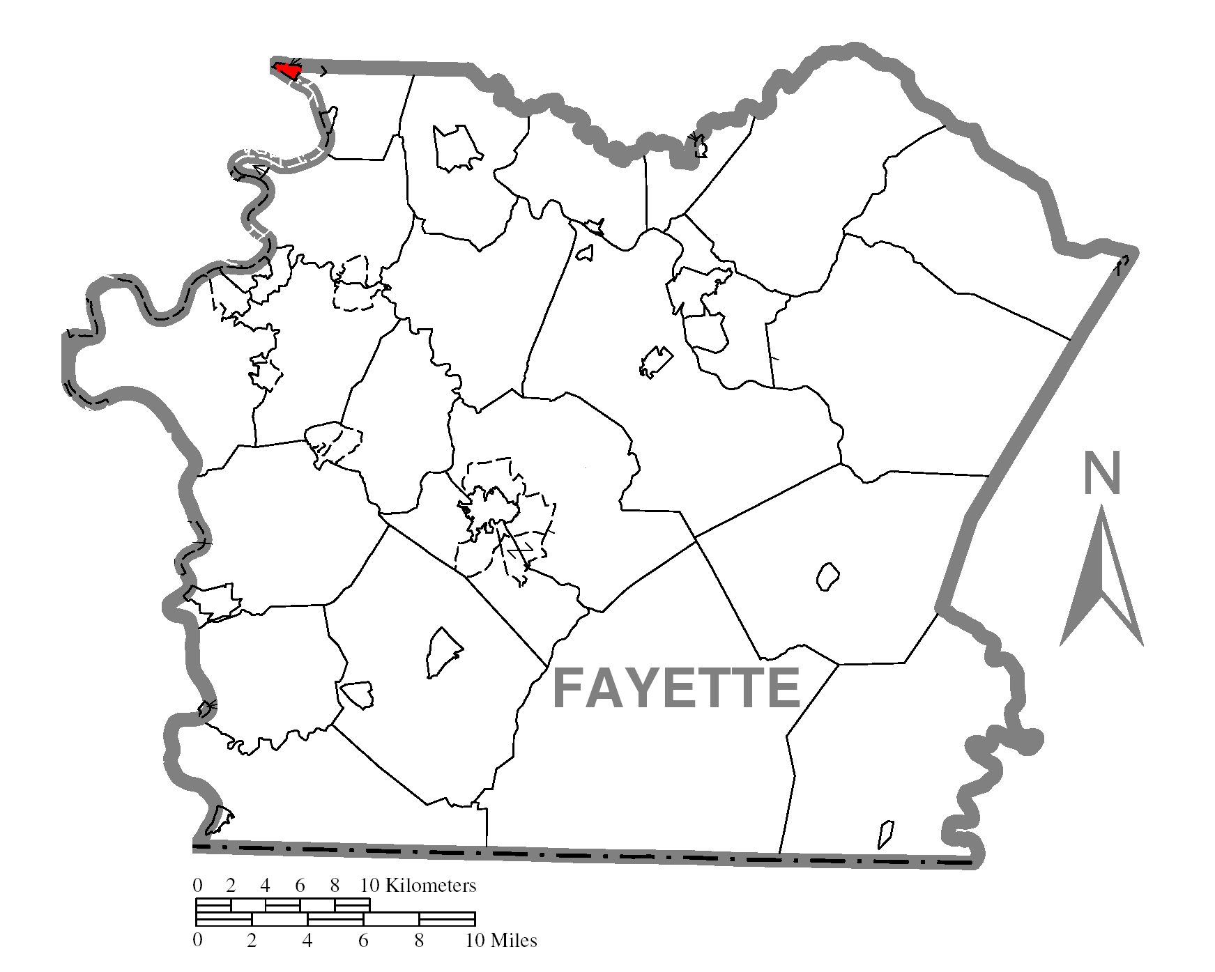 Map of Fayette County higlighting Belle Vernon.